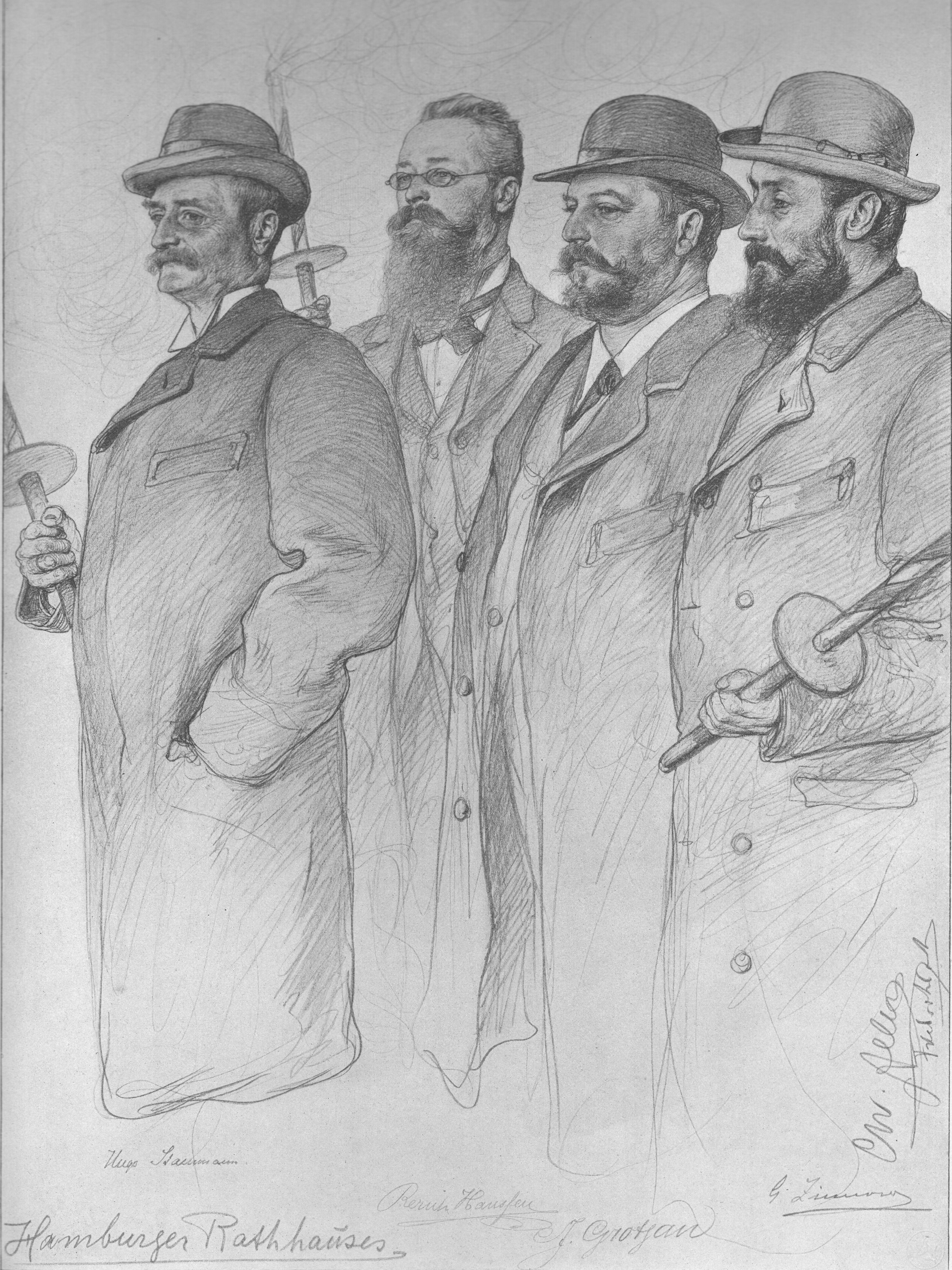 Architects of Hamburg town hall, part 2: Hugo Stammann, Bernhard Hanssen, Johannes Grotjan, Gustav Zinnow